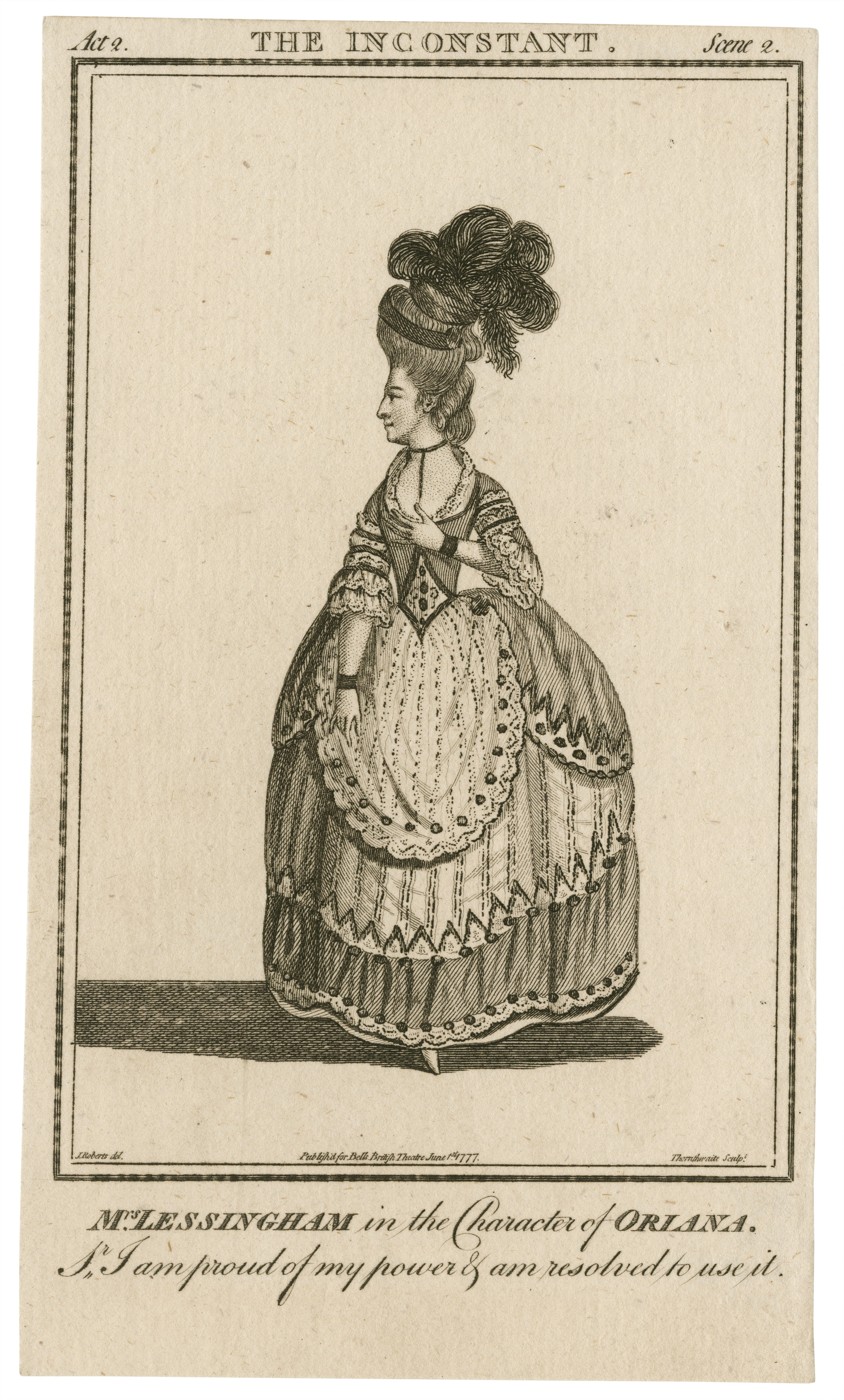 Mrs. Lessingham in the character of Oriana in Farquhar's The Inconstant : inscription: "Sir I am proud of my power and am resolved to use it" / . ; Thornthwaite, sculpt